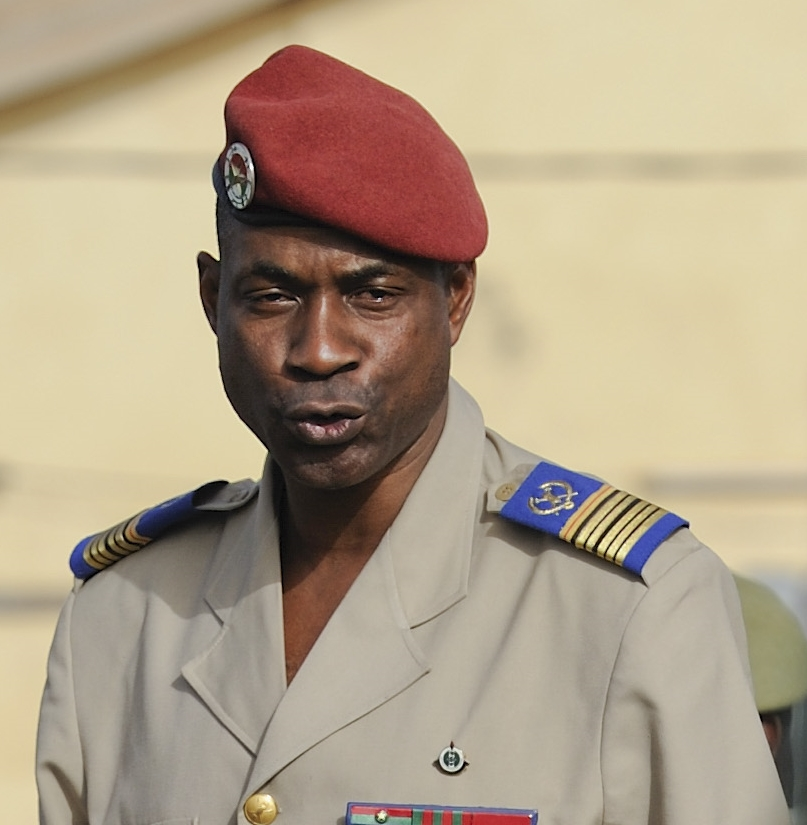 Burkinabe Col. Maj. Gilbert Diendere, chief of staff of the President of Burkina Faso and President of the Burkina Faso Flintlock 2010 Committee, addresses Burkinabe soldiers prior to their deployment to Mali in support of exercise Flintlock 10 in Ouagadougou, Burkino Faso, May 1, 2010. About 40 soldiers boarded the C-130J to deploy for counterterrorism training with U.S., Malian and European partners. Flintlock 10 is a special operations forces exercise and is part of a U.S. Africa Command-sponsored annual program with partner nations in Northern and Western Africa.